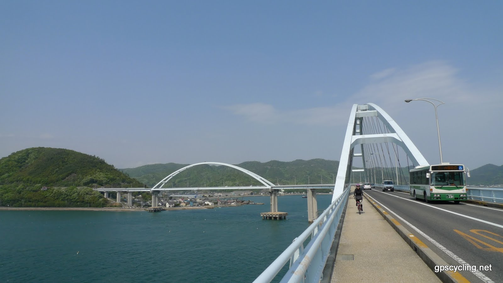 内海大橋 - Inland Sea Bridge, Hiroshima Prefecture